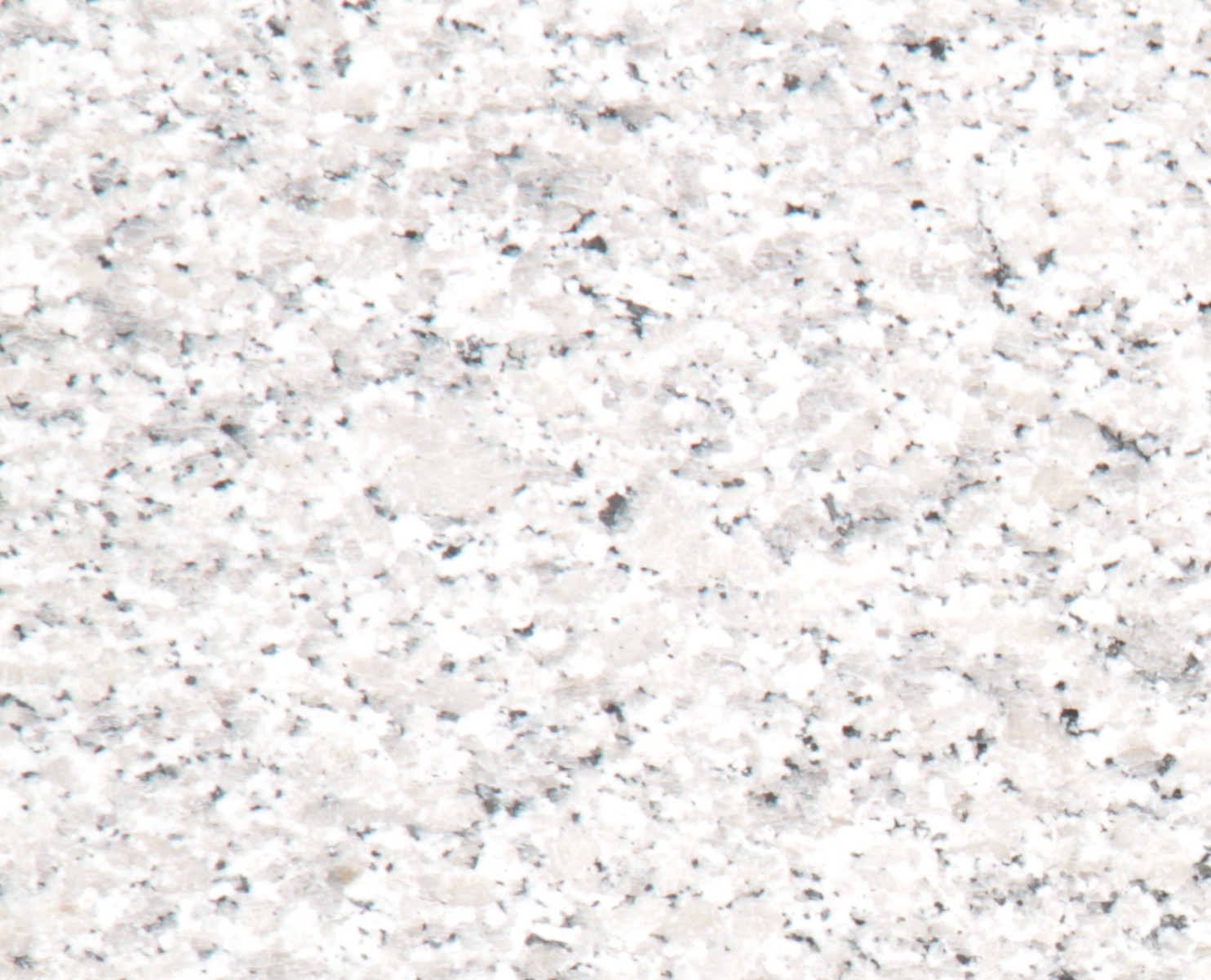 Bianco Sardo Granit from Italy, Sardinien